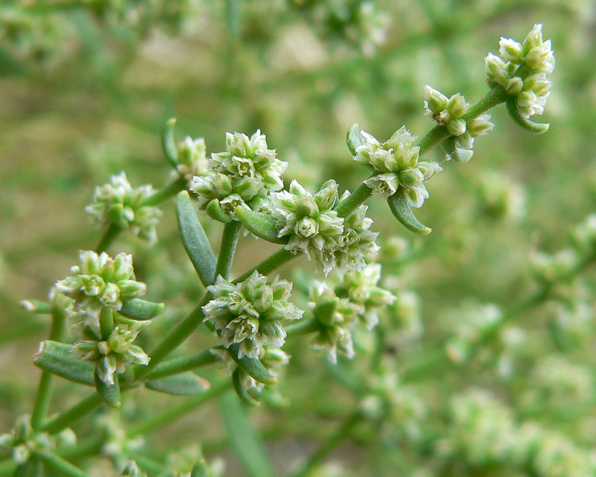 Scopulophila rixfordii in the rocks just south of Indian Springs, Spring Mountains, southern Nevada (elev. about 1000 m)